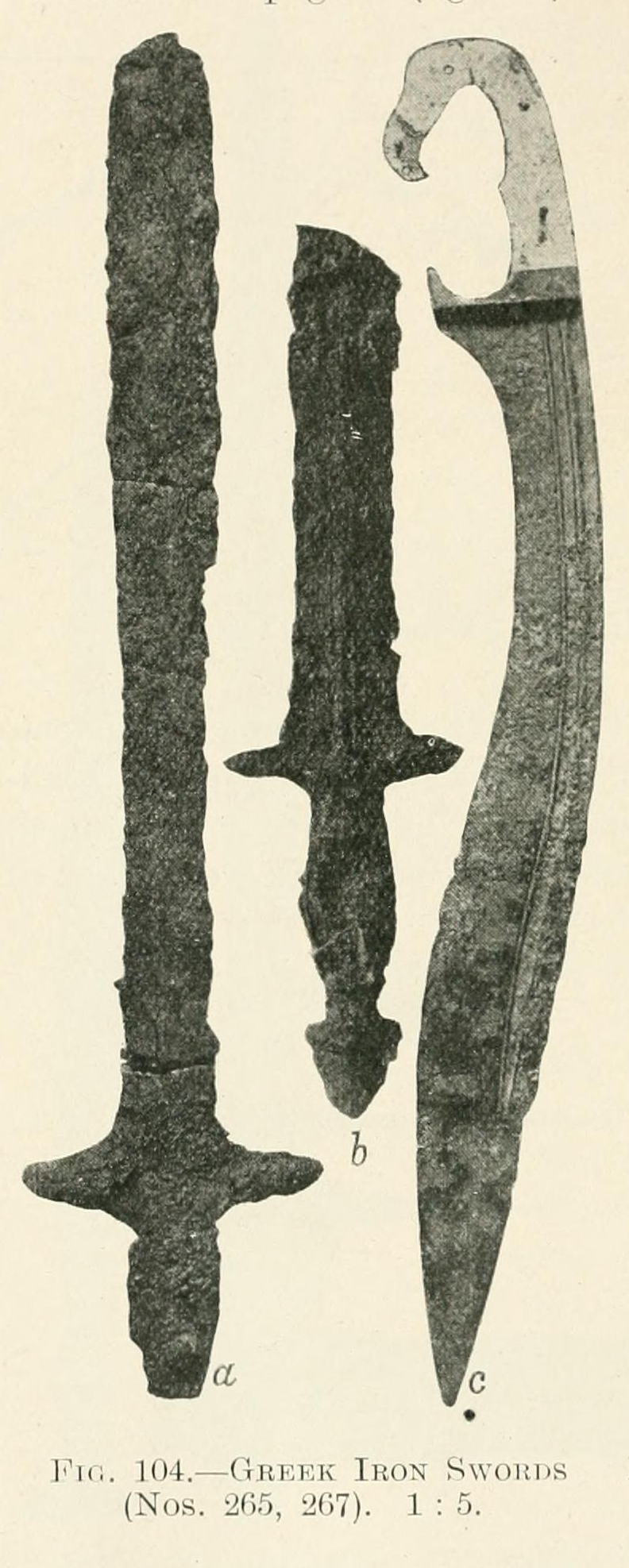 Greek iron swords; machaira on the right